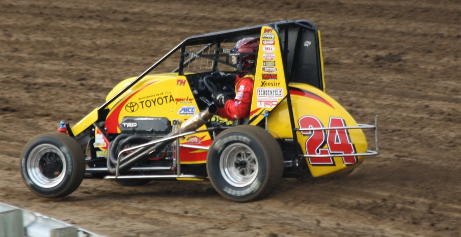 The USAC Midget Car of Tracy Hines at Angell Park Speedway